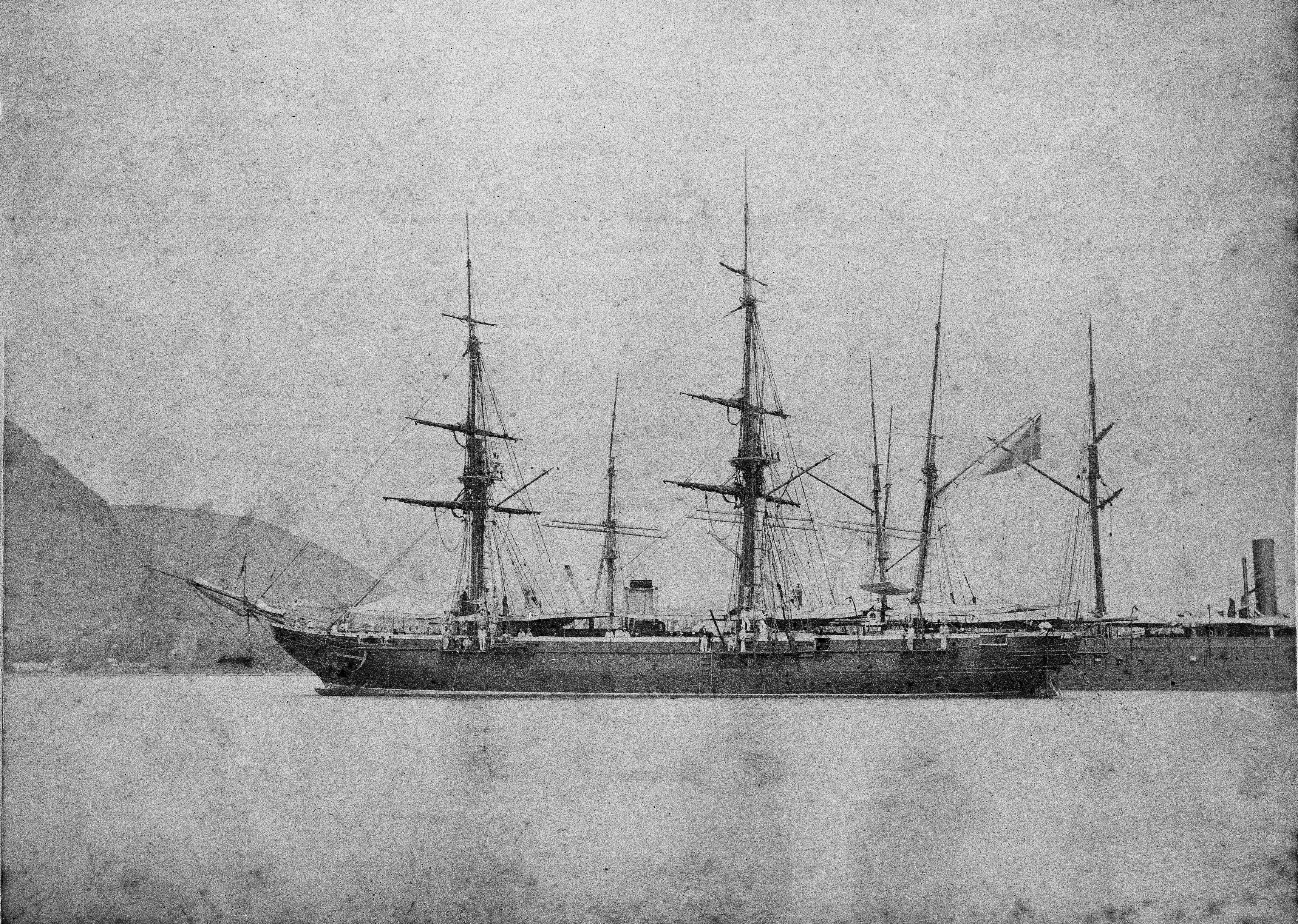 Swedish steam frigate Gefle.